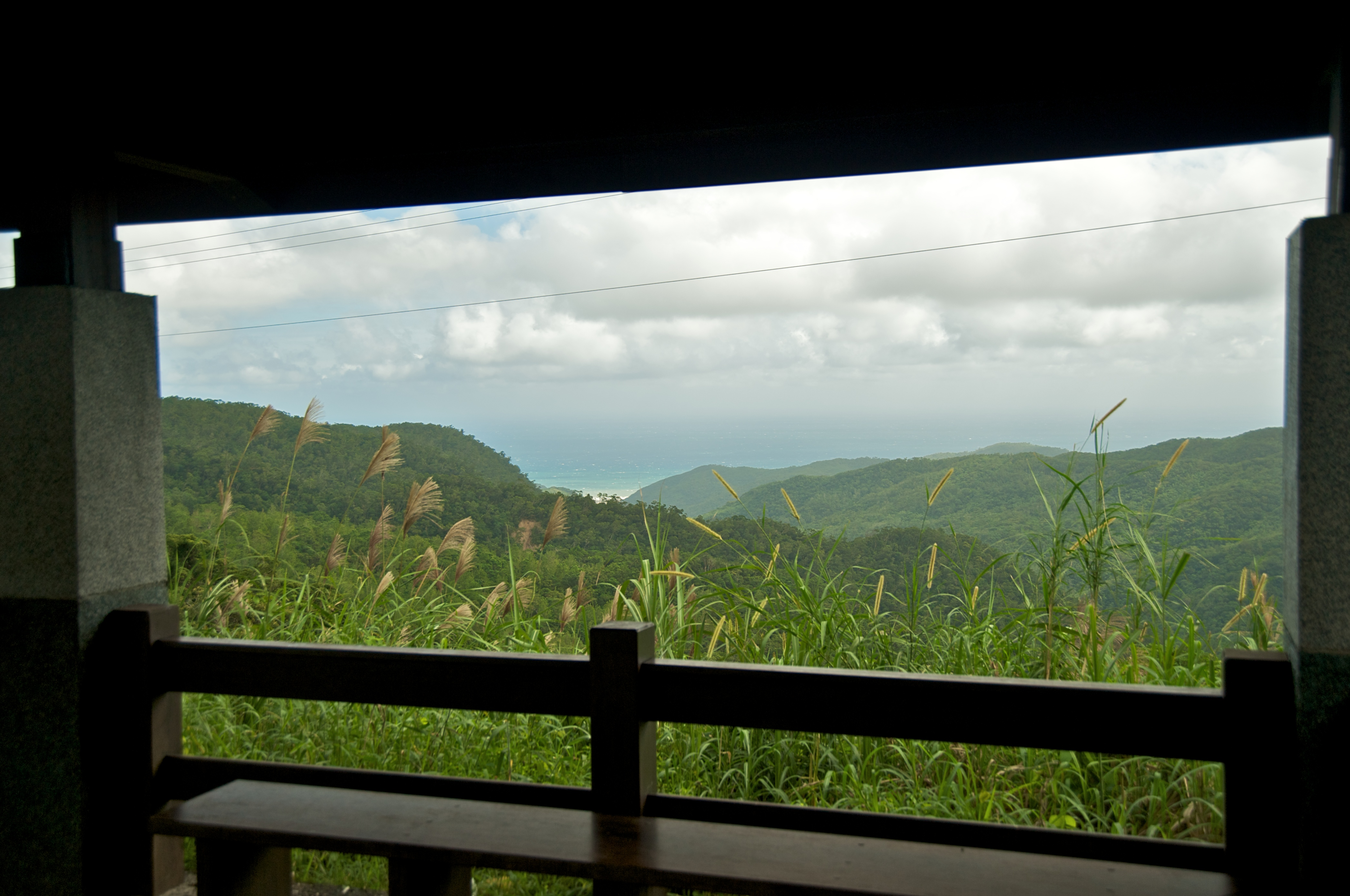 Central Mountain Range meets the ocean, Taiwan